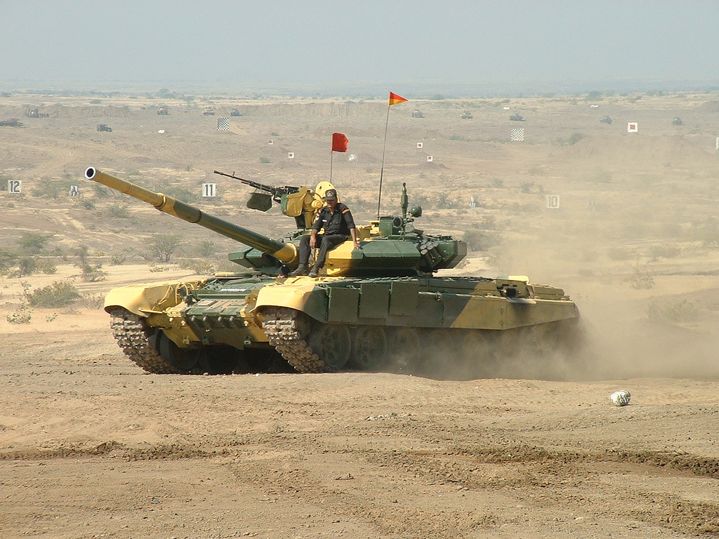 Indian Army Armoured Corps T-90 main battle tank